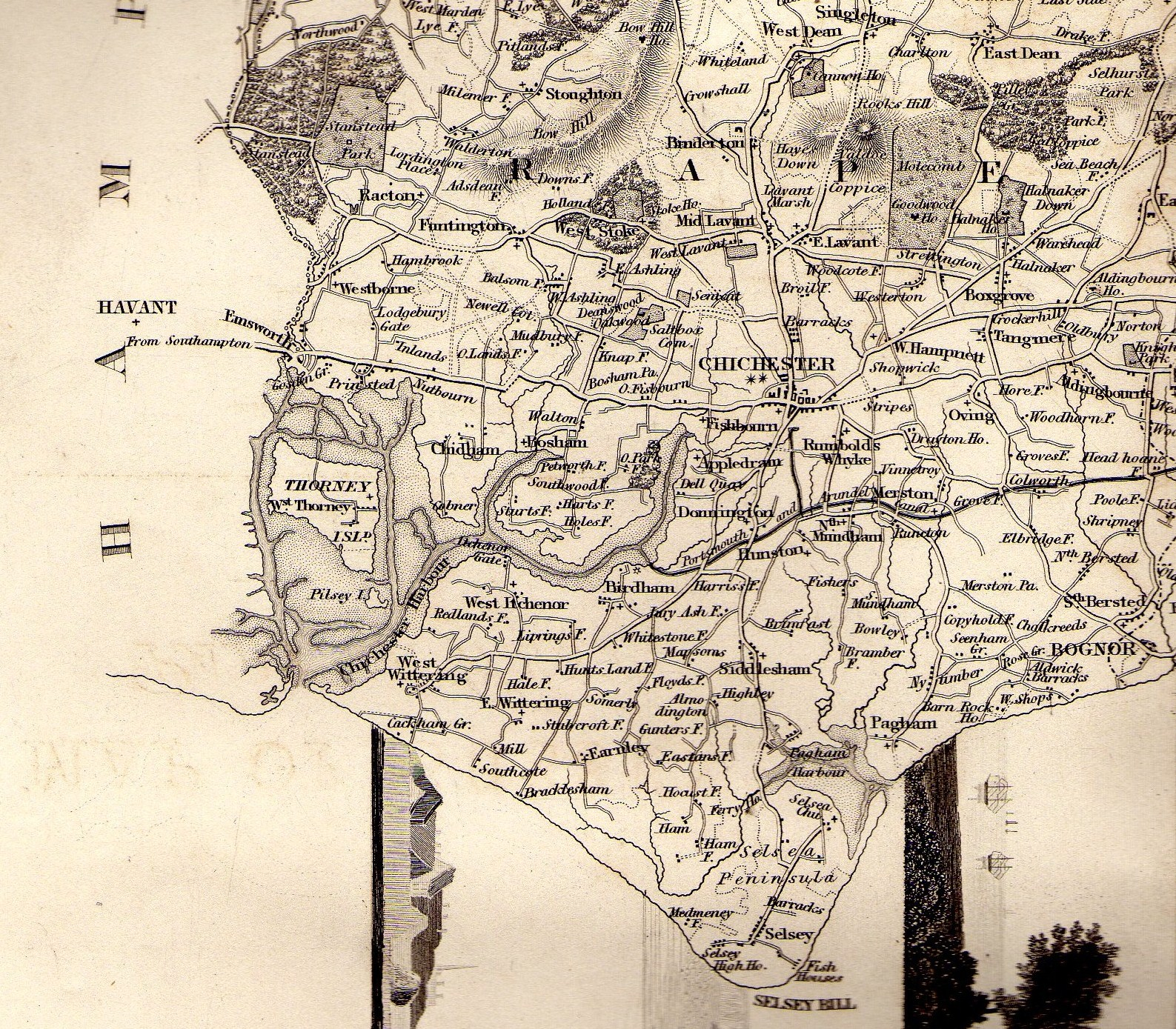 A map of south west Sussex published 1835 in The History, Antiquities and Topography of the County of Sussex by Thomas Walker Horsfield F.S.A.